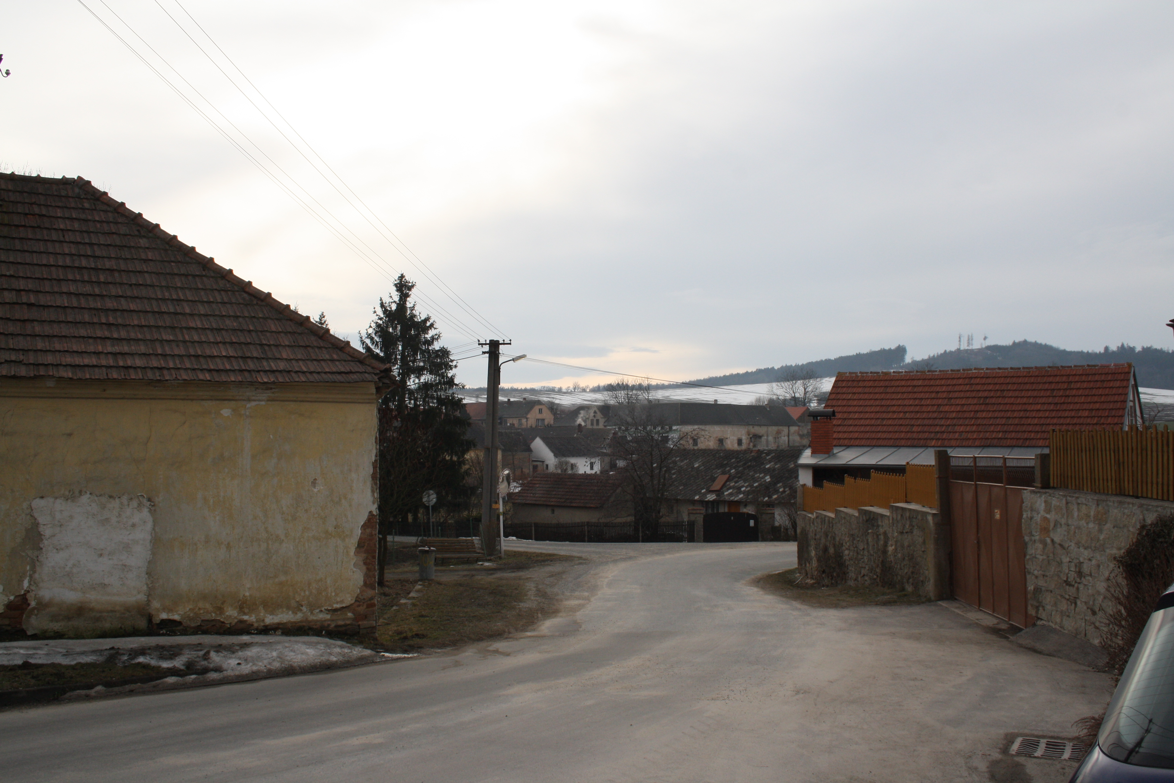 Center of Šebkovice.